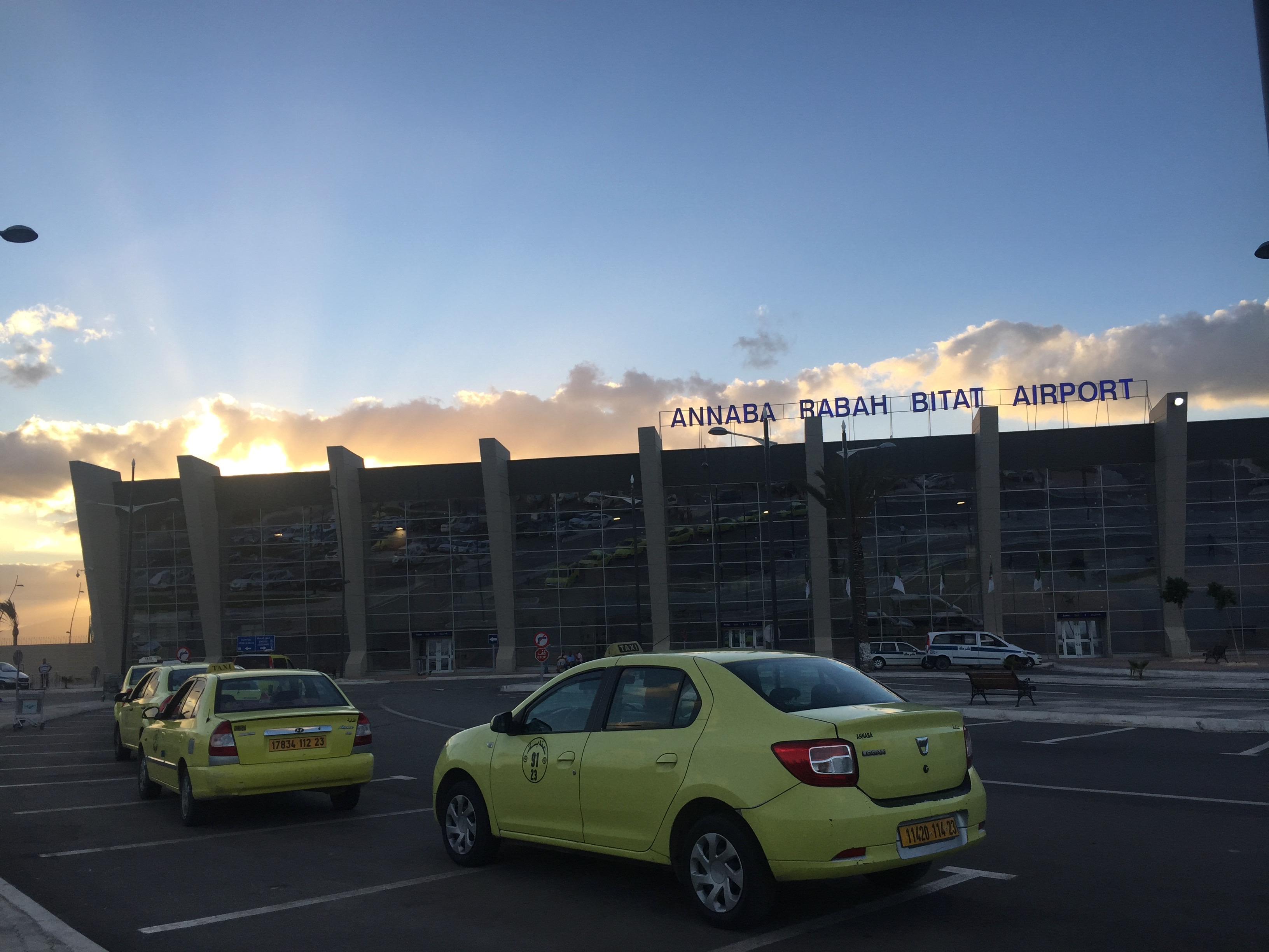 Airport of the City of Annaba, Algeria